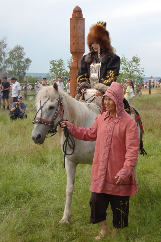 A Yakut woman riding a horse in Yakutsk.